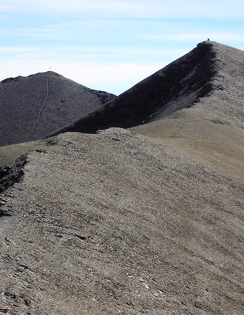 Summit and subsummmit (in the background) of the Punta Nera (Cottian Alps, French/Italian border) as seen from Grand Argentier